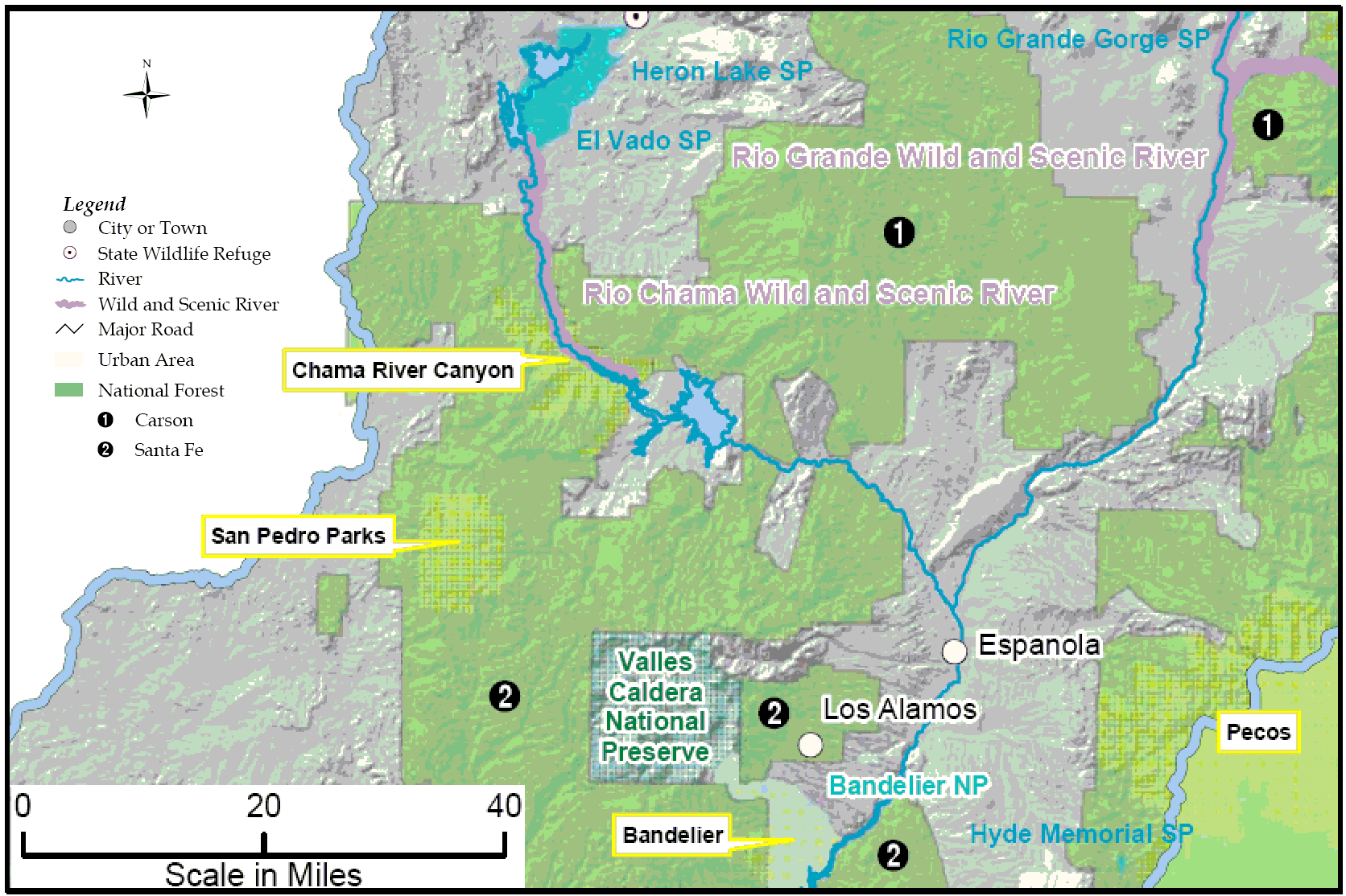 Map of Rio Chama, New Mexico, and portion of Rio Grande in New Mexico